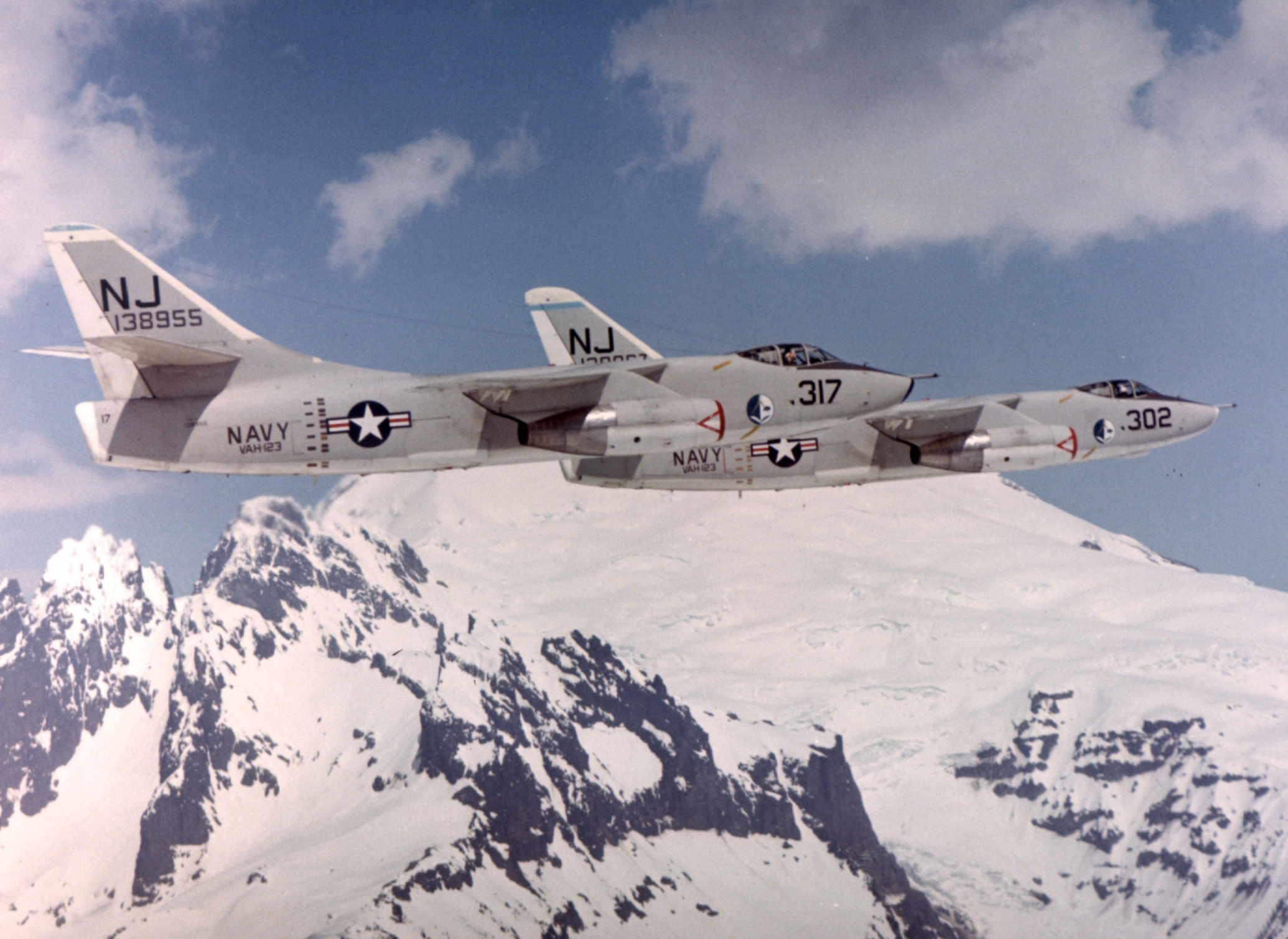 Two U.S. Navy Douglas A-3B Skywarrior (BuNo 138955, 138967) from fleet replacement squadron VAH-123 Professionals in flight. Both aircraft were converted to KA-3B tankers in 1967.